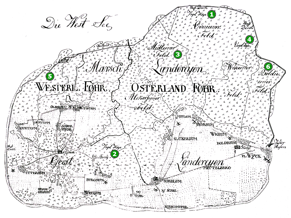 map of the North Frisian island of Föhr, Germany, when it was divided between Denmark (west) and the Duchy of Schleswig (east), in or before 1864 Vogelkojen auf Föhr: Alte Oevenumer Fuglekøje 1730 Borgsumer Fuglekøje 1745 Ackrumer Fuglekøje 1766 Neue Oevenumer Fuglekøje 1798 Oldsumer Fuglekøje 1862 Boldixumer Fuglekøje 1876